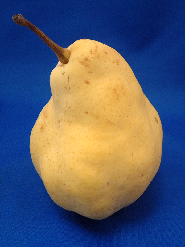 The European Pear to which named Le Lectier. The epidermal color has changed from green to yellow in this photograph.